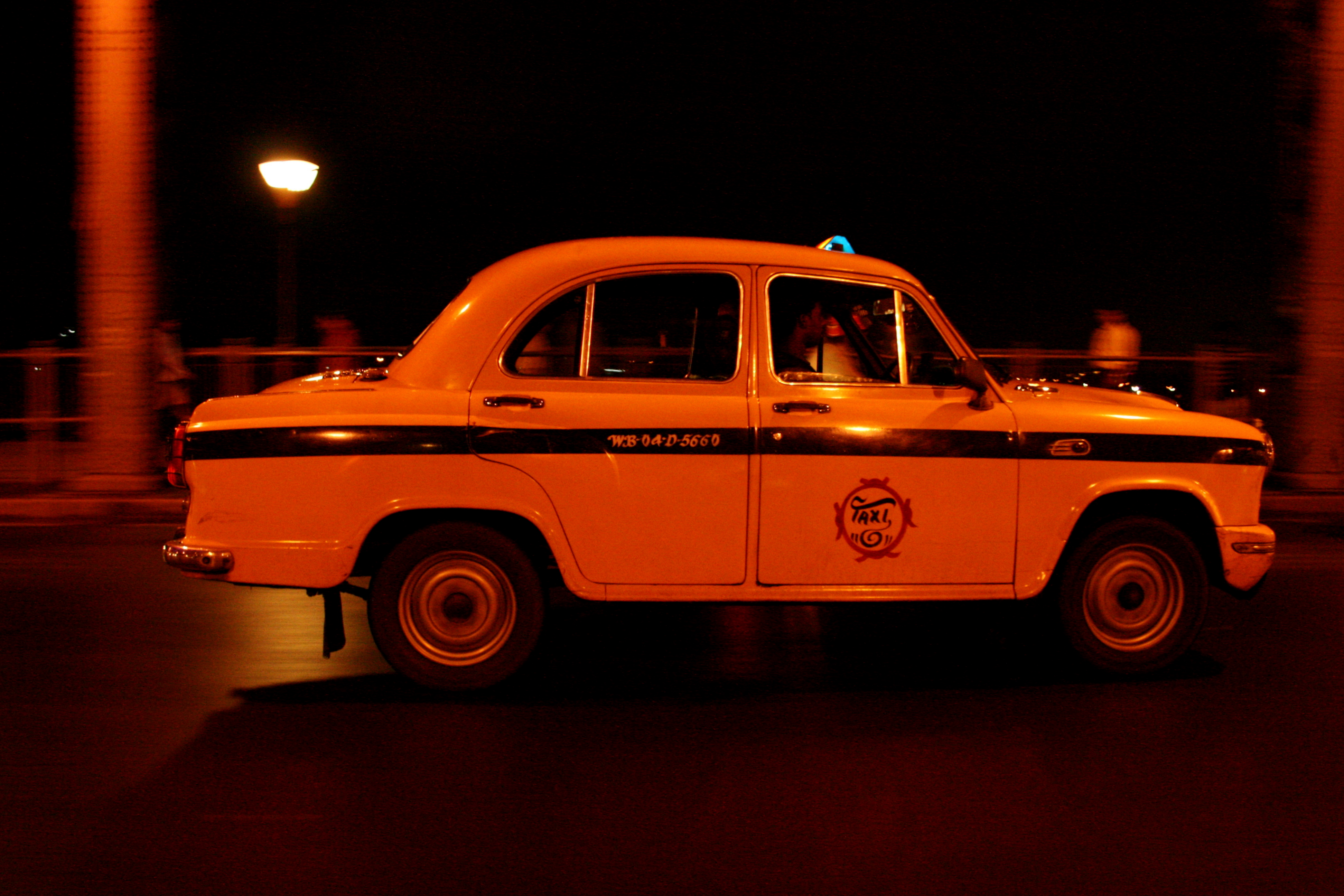 The yellow Cab/Taxi is a common mode of public transport in Kolkata WestBengal, India. It has become a symbolic part of Kolkata over the ages.